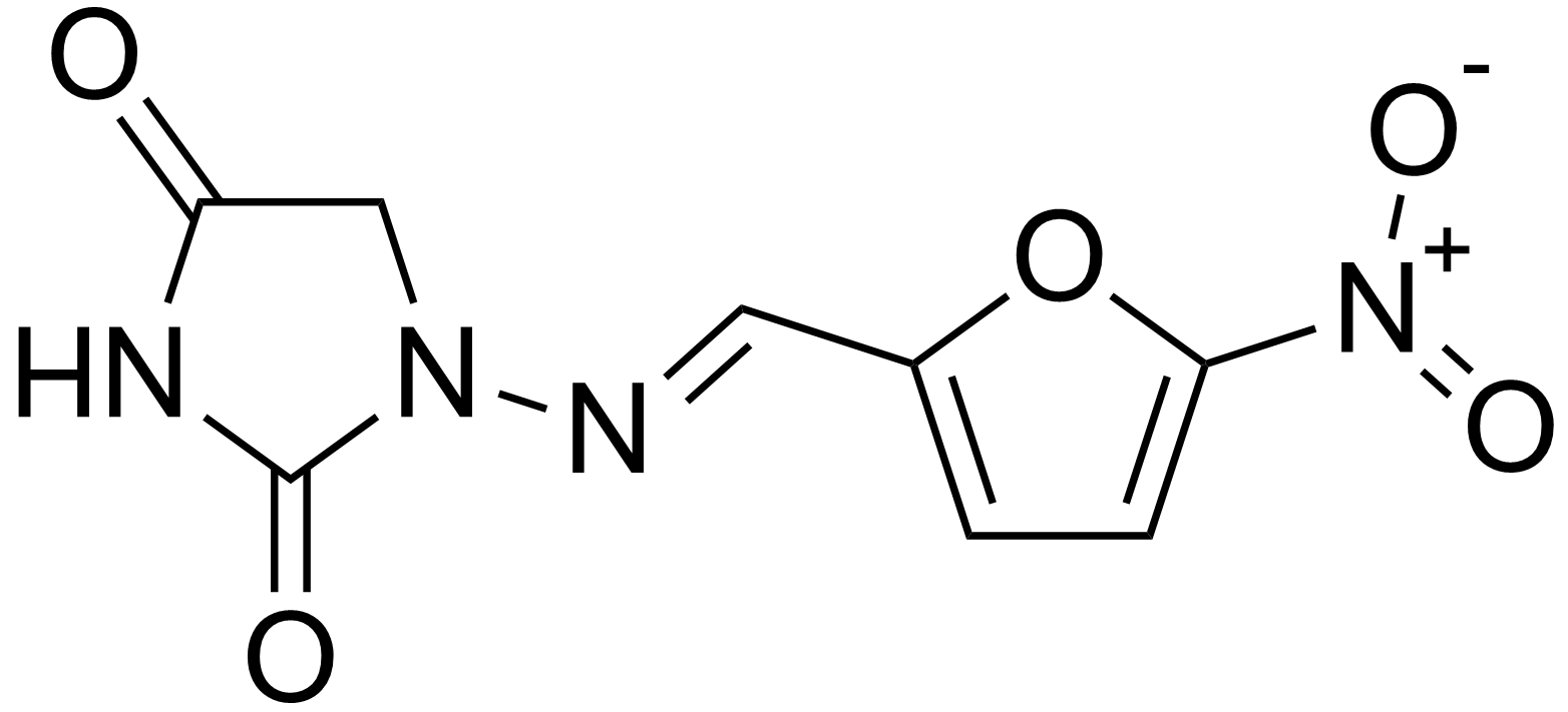 Chemical structure of nitrofurantoin